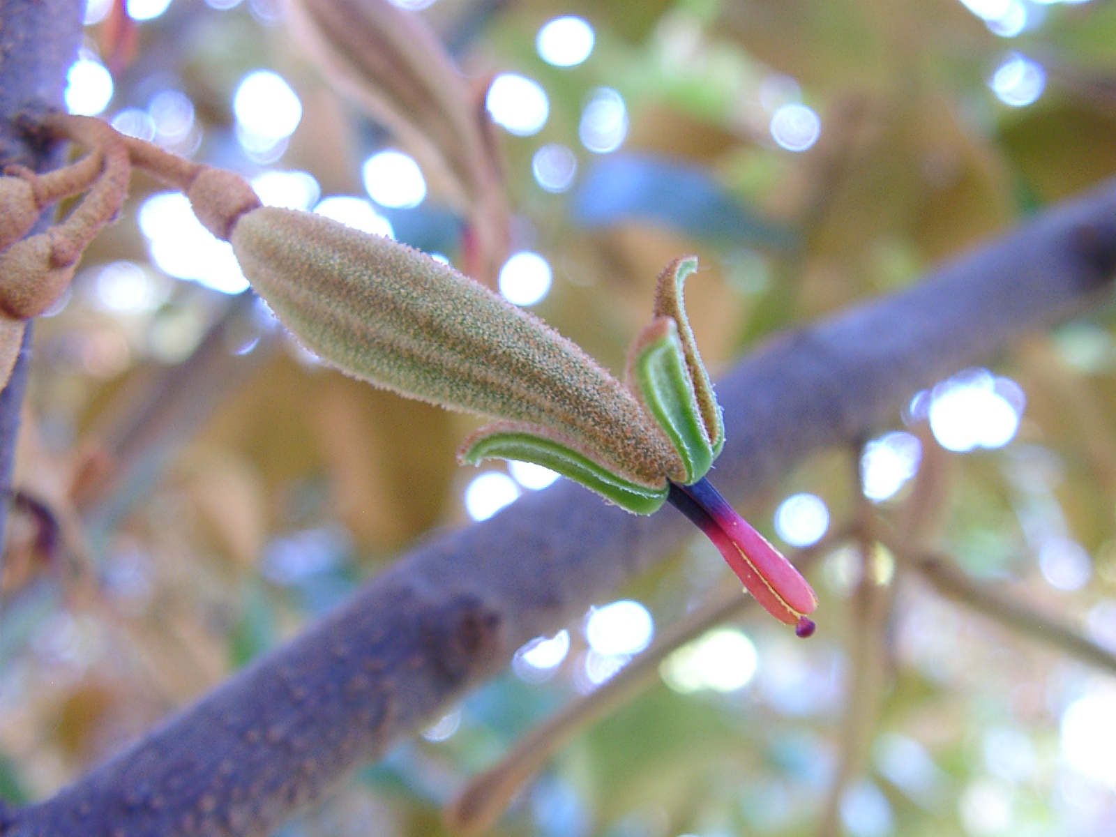 Scurrula yadoriki flower, Yugawara, Japan.